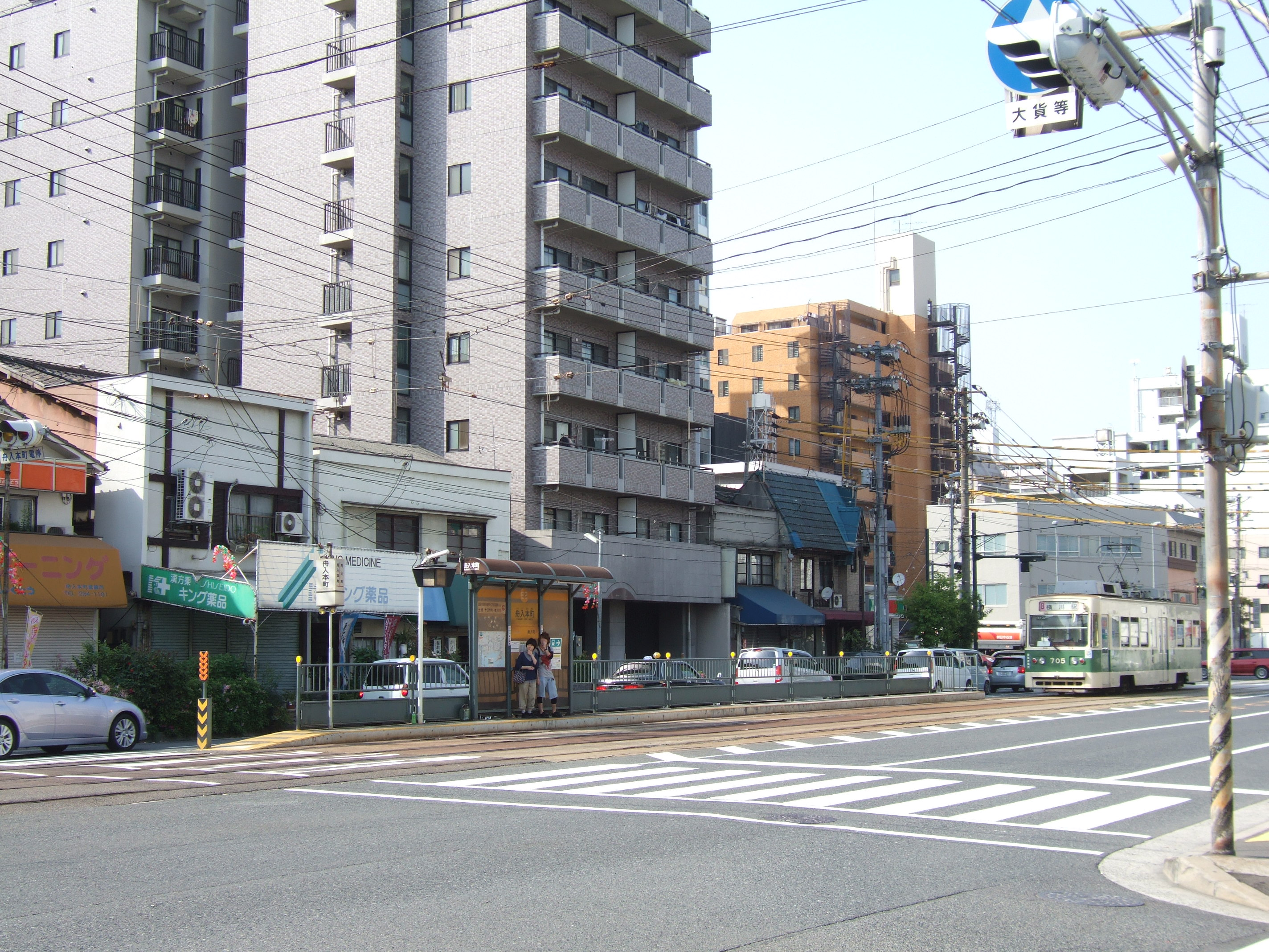 Funairi-Honmachi Station Platform for Yokogawa Station and Hiroshima Station on Hiroshima Electric Railway (Hiroden) Eba Line